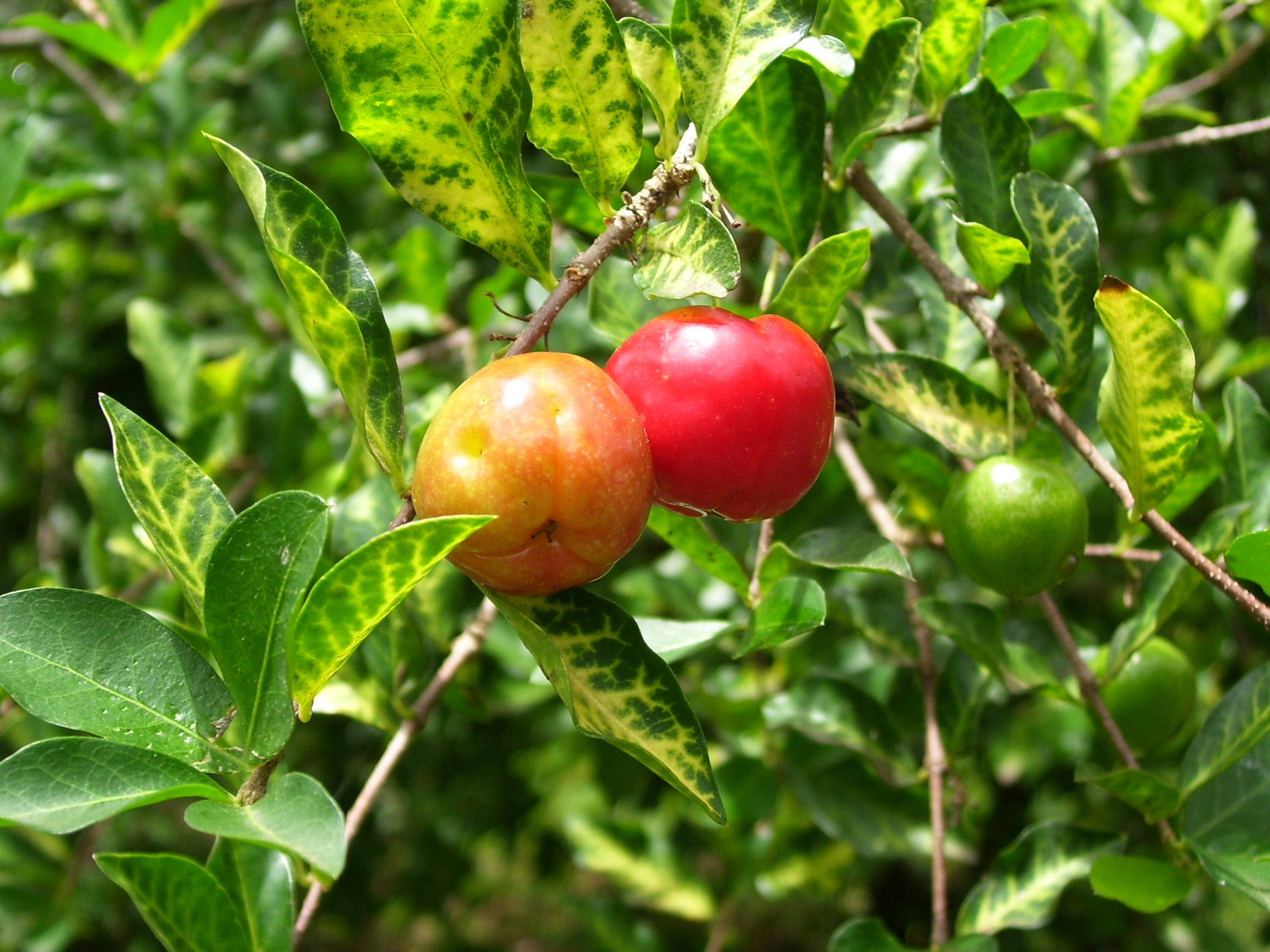 Acerola (Malpighia glabra)